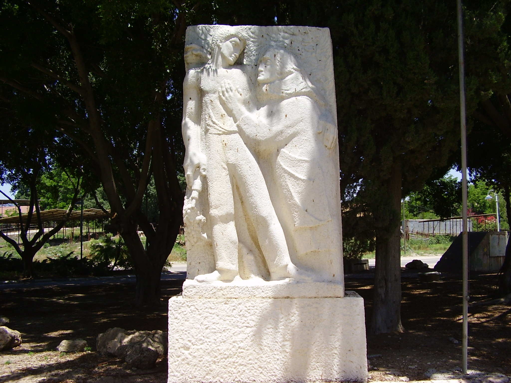 War memorial in Be'er Tuvia